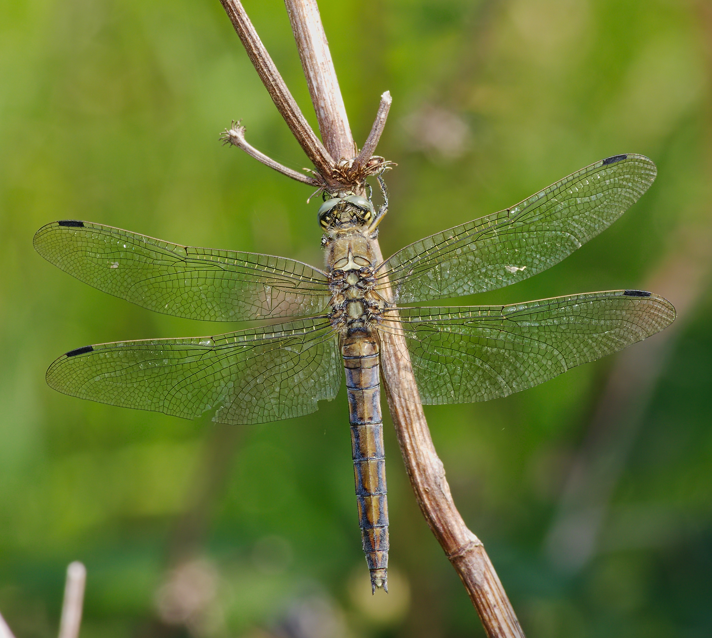 Black-tailed skimmer - Orthetrum cancellatum, female. Taken by a lake in Pfingstberg, Mannheim-Rheinau, Baden-Württemberg, Germany.